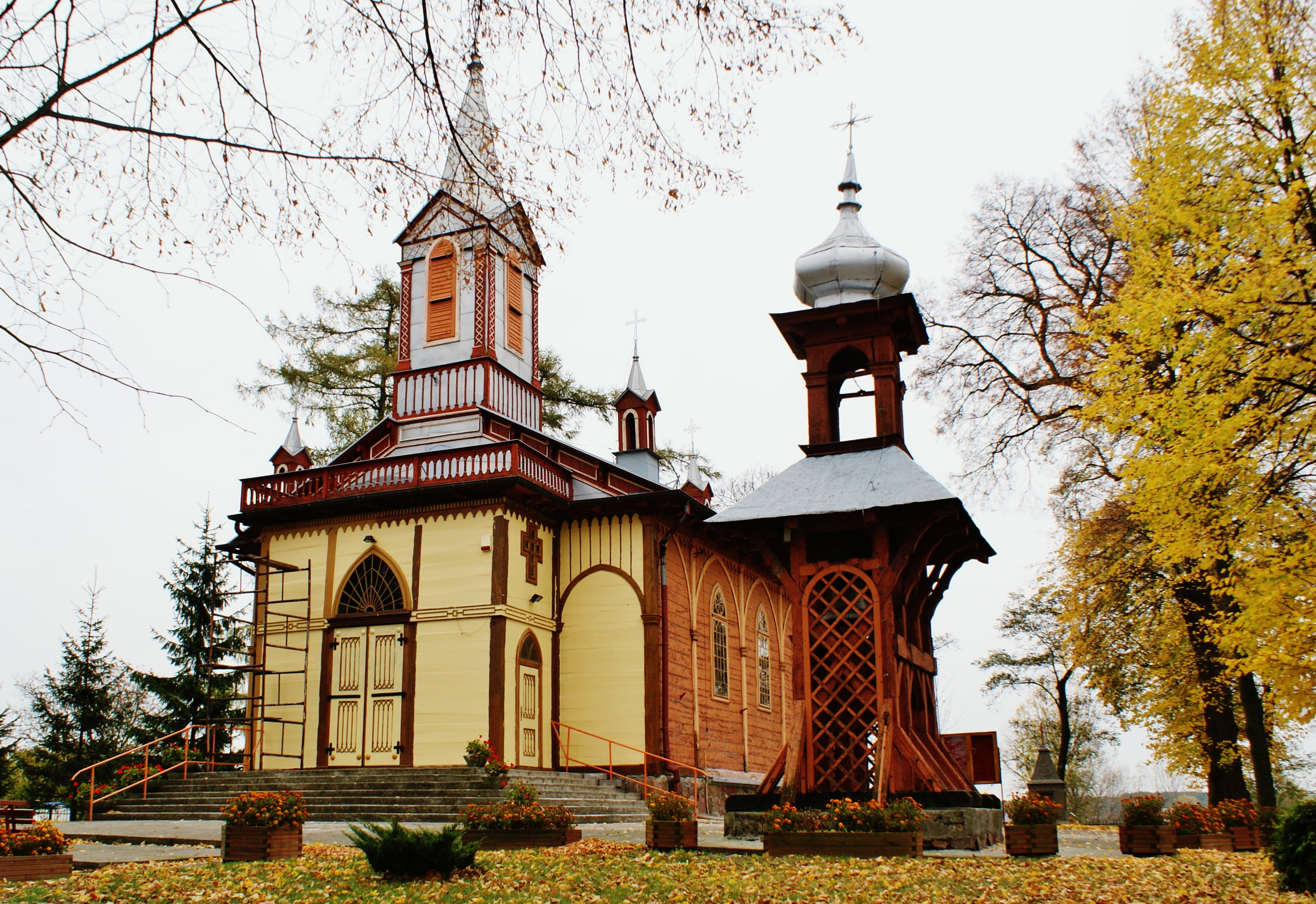 Parish church of the Holy Assumption in Krzywosądz with campanile, Kuyavian-Pomeranian Voivodeship, Poland. (during renovation)